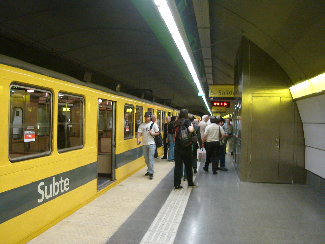 View of the H line Once station of the Buenos Aires Underground network in the City of Buenos Aires in its opening day with classical Siemens-Schuckert formations.